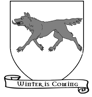 A fictional coat of arms. Coat of arms of House Stark. Shows a gray wolf on a white field. Underneath is a scroll bearing a motto: Winter is Coming. The following Commons images were used to create this image: File:Old French Escutcheon.svg by Masur (talk · contribs) File:Coat-elements-2.png by Qyd (talk · contribs) (scroll on bottom) File:Coa Illustration Elements Animal Wolf.svg by Madboy74 (talk · contribs)